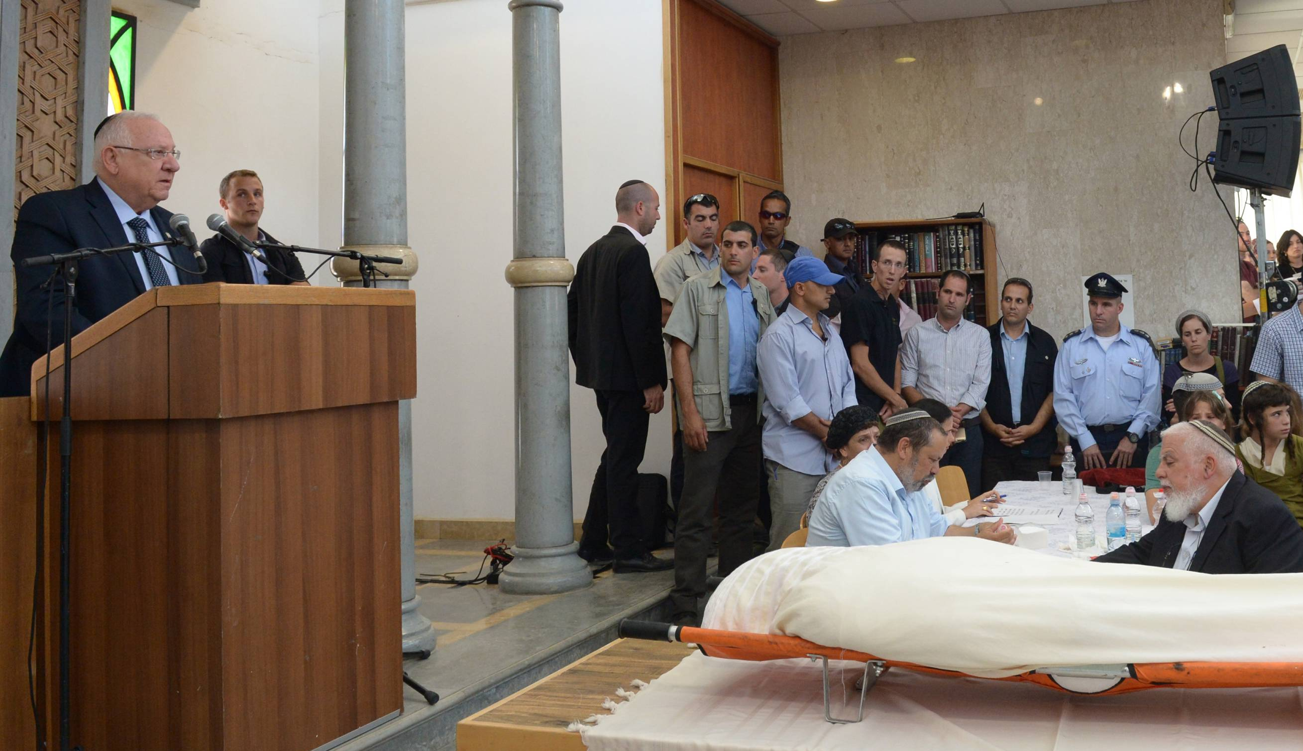 נשיא מדינת ישראל ראובן ריבלין בדברי הספד בהלוויתו של מיכאל ( מיכי ) מרק ז"ל שנרצח בפיגוע ירי בדרום הר חברון בישיבת הסדר בעותניאל